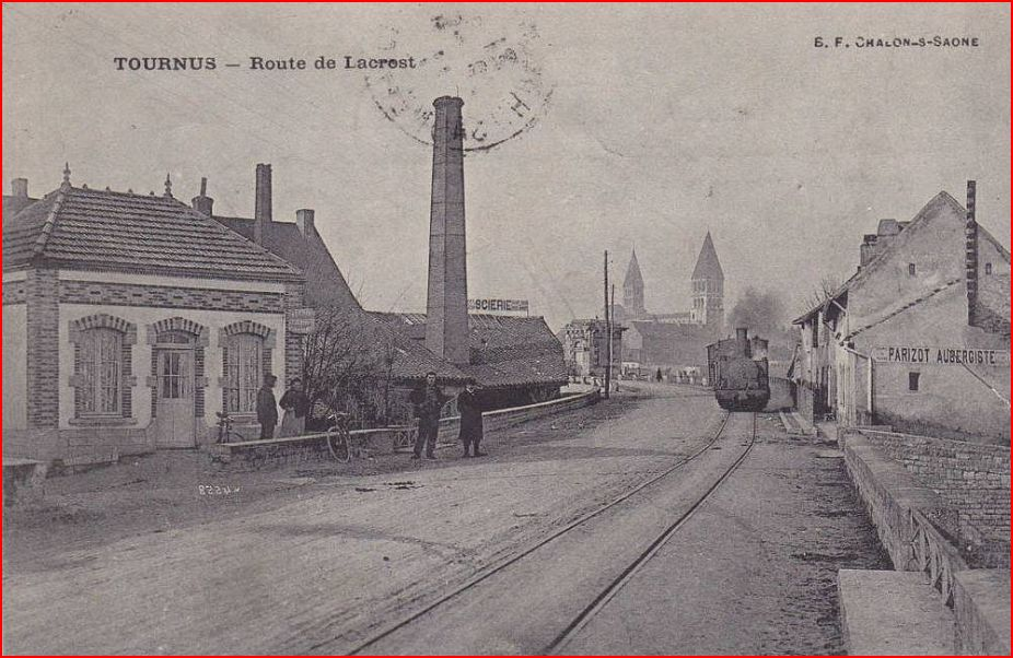 Tournus entrance from the road to Lacrost (Saône-et-Loire, France). With the local train and in the background the Saint-Philibert abbaye.